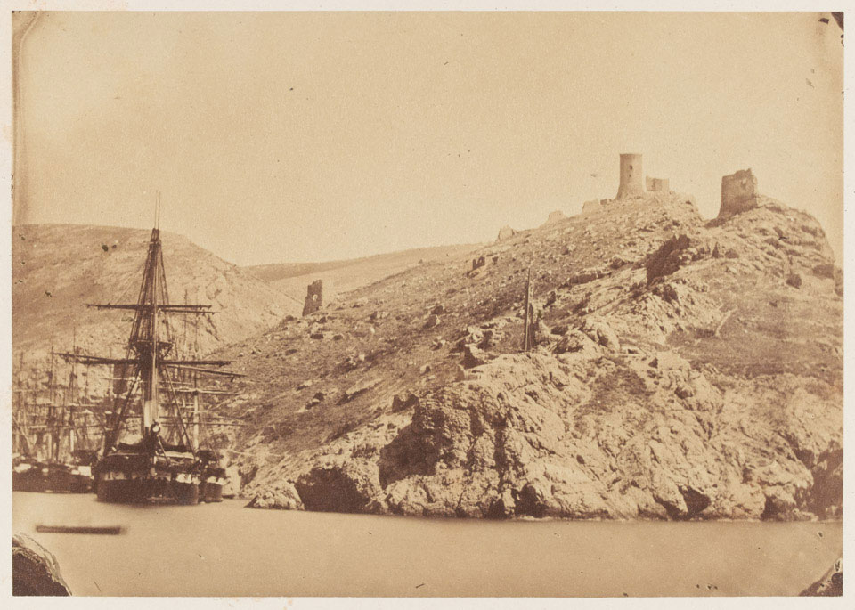 The 'Leander' at the entrance of Balaklava harbour, 1855 Photograph by George Shaw Lefevre, Crimean War (1854-1856), 1855. The 4th rate frigate HMS 'Leander' was launched in 1848. She was armed with 50 guns and had a crew of 525. During 1855 'Leander' was commanded by Captain William Peel and was the flagship of Rear-Admiral Charles Howe Fremantle, the Superintendent of Balaclava port during the Crimean War. From a folio of 12 photographs taken by George Shaw Lefevre. Published by J Hogarth, printed by T Brettell. NAM Accession Number NAM. 1986-04-101-12 Copyright/Ownership National Army Museum, Out of Copyright Location National Army Museum, Study collection Object URL More information on the photograph here